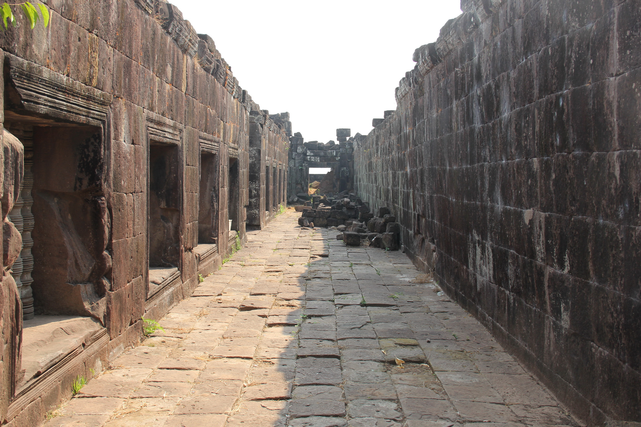 Southern palace, Wat Poo, Champasak, Laos ຜາສາດຫີນວັດພູ, ຈຳປາສັກ, ປະເທດລາວ